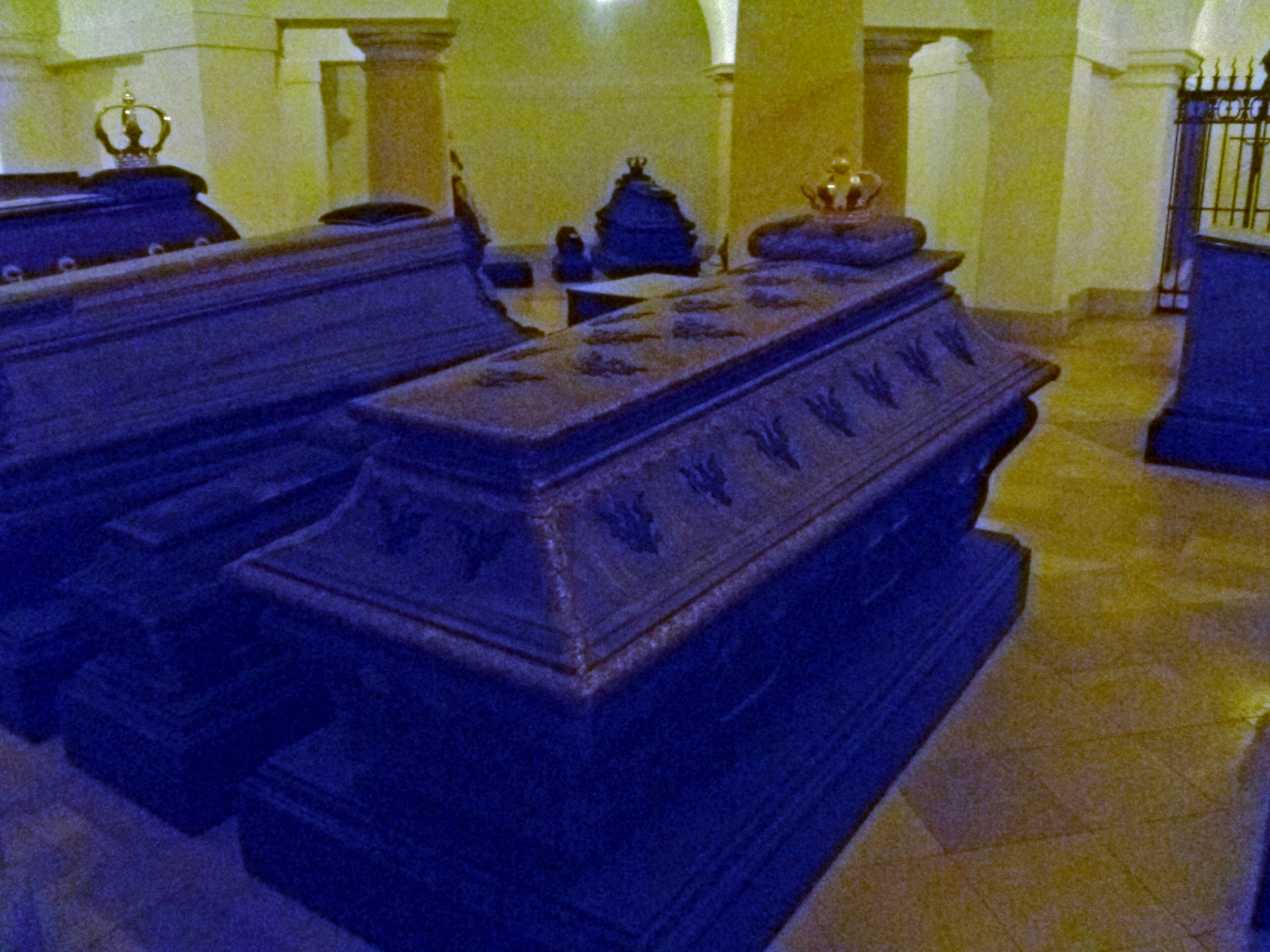 Coffin of Prince Augustus William of Prussia (09.08.1722 - 12.06.1758): Hohenzollern Crypt, Berlin Cathedral, Berlin, Germany